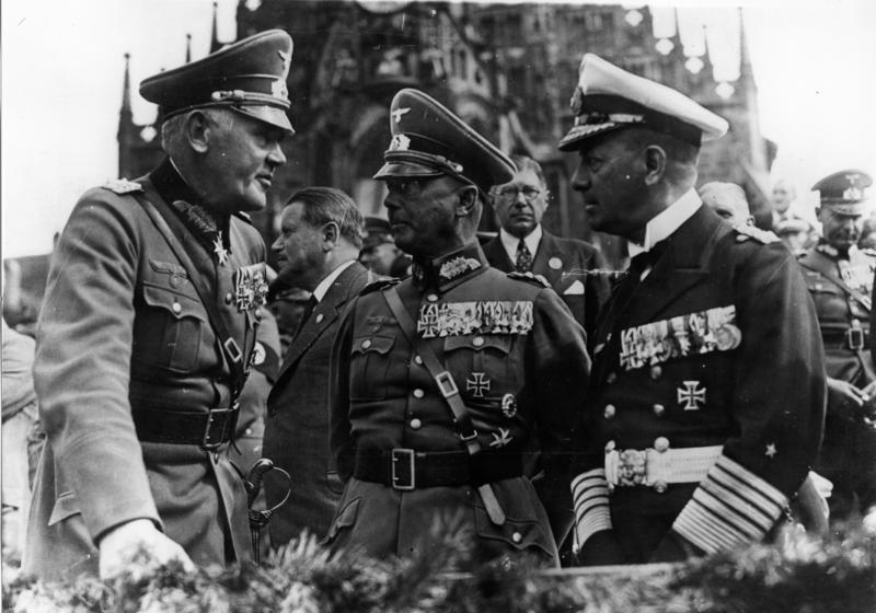 8th NSDAP Party day parade on 13 September 1936 in front of the Frauenkirche. People left to right Field Marshal Werner von Blomberg War Minister and Commander of the Armed Forces, Colonel General Werner von Fritsch Commander in Chief of the Army and Grand Admiral Erich Raeder commander of the Navy. Abgebildete Personen